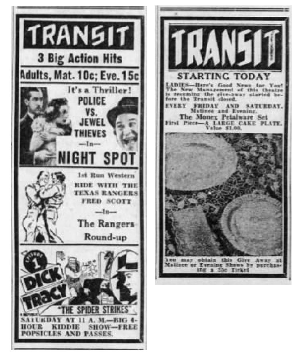 Transit Theater advertisement for the American films Night Spot (1938), The Rangers' Round-Up (1938), and chapter 1 of the film serial Dick Tracy (1937) - 27 May 1938 Morning Call, Allentown PA